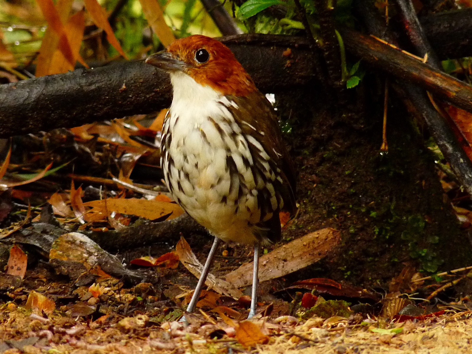 A Chestnut-crowned Antpitta near Manizales, Caldas, Colombia.